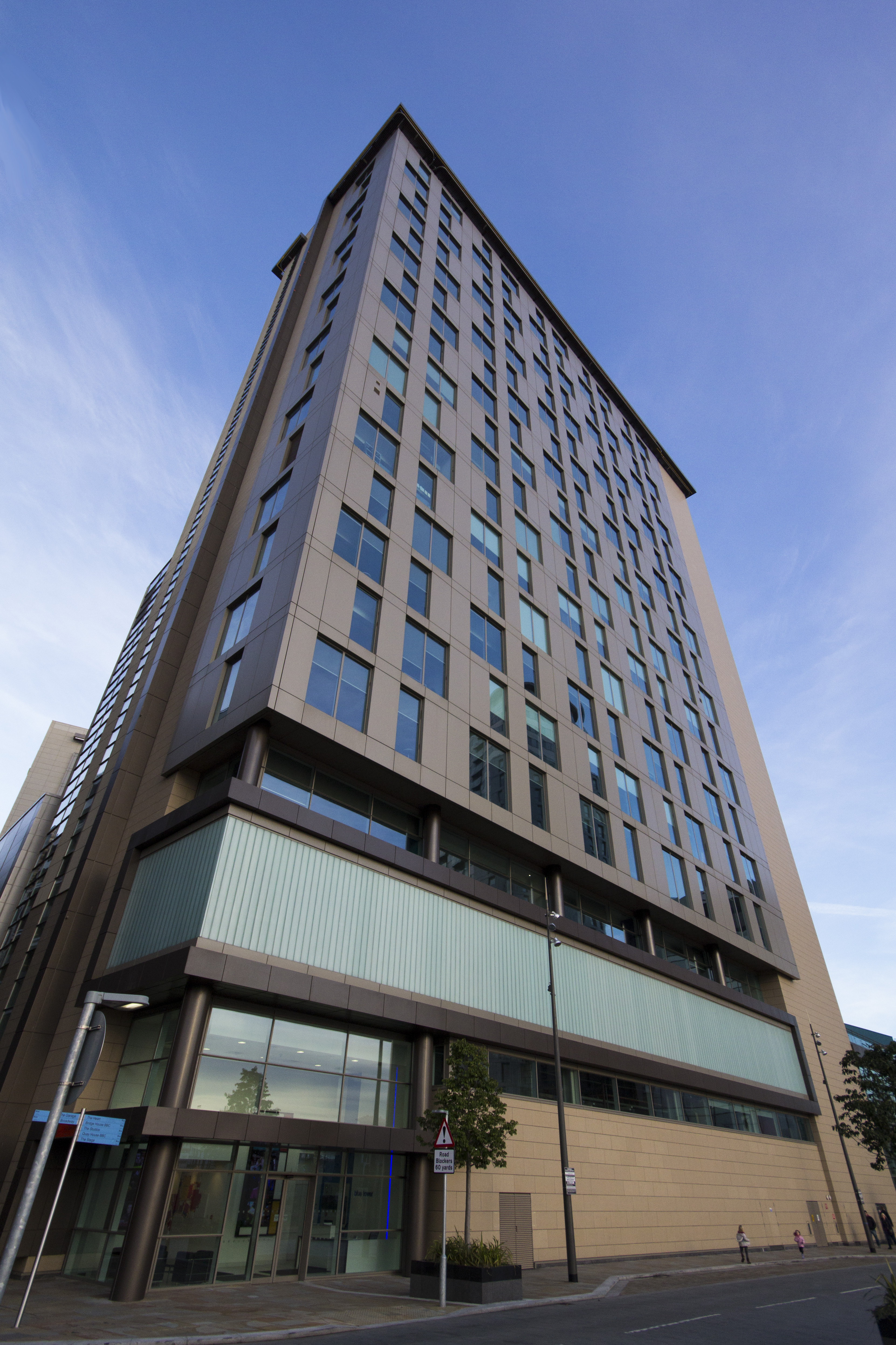 It's a building, it isn't blue.